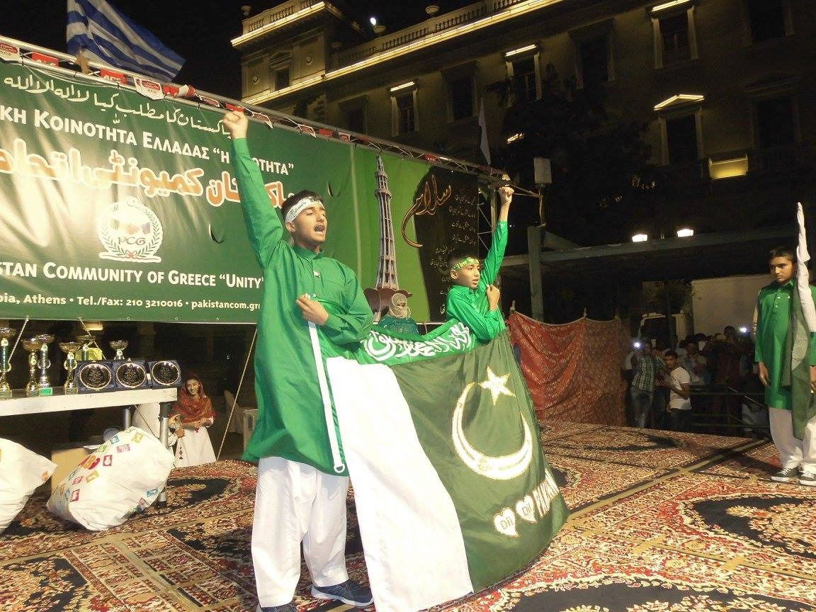 Refugee children in Greece hold Islamic and Pakistan flags.